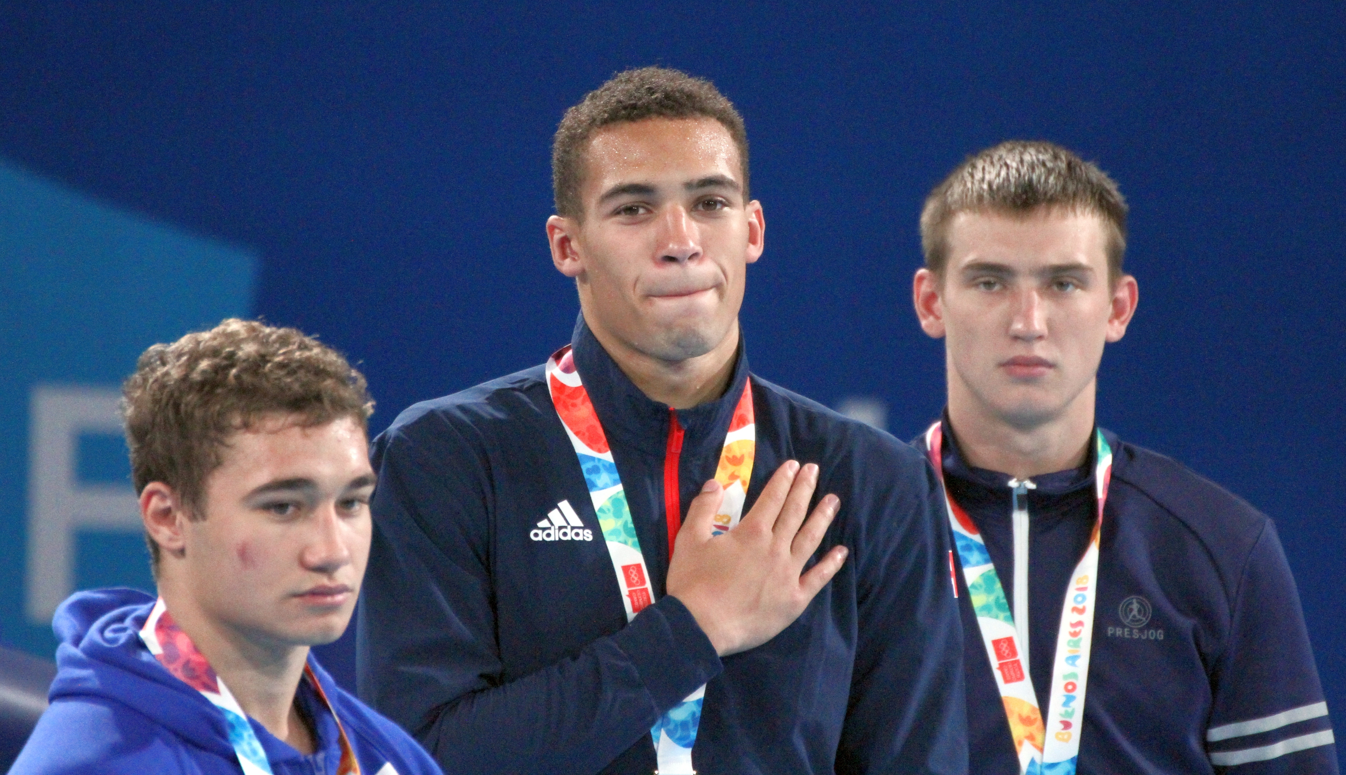 Boxing at the 2018 Summer Youth Olympics on 18 October 2018 – Boys' light heavyweight Victory Ceremony - Gold: Karol Itauma (Great Britain), Silver: Ruslan Kolesnikov (Russia), Bronze: Timur Merjanov (Uzbekistan); Medal handover by Daina Gudzinevičiūtė (IOC, Lithunia), Gift presented by Pasquale Lucio Fiacco (Canada, AIBA).